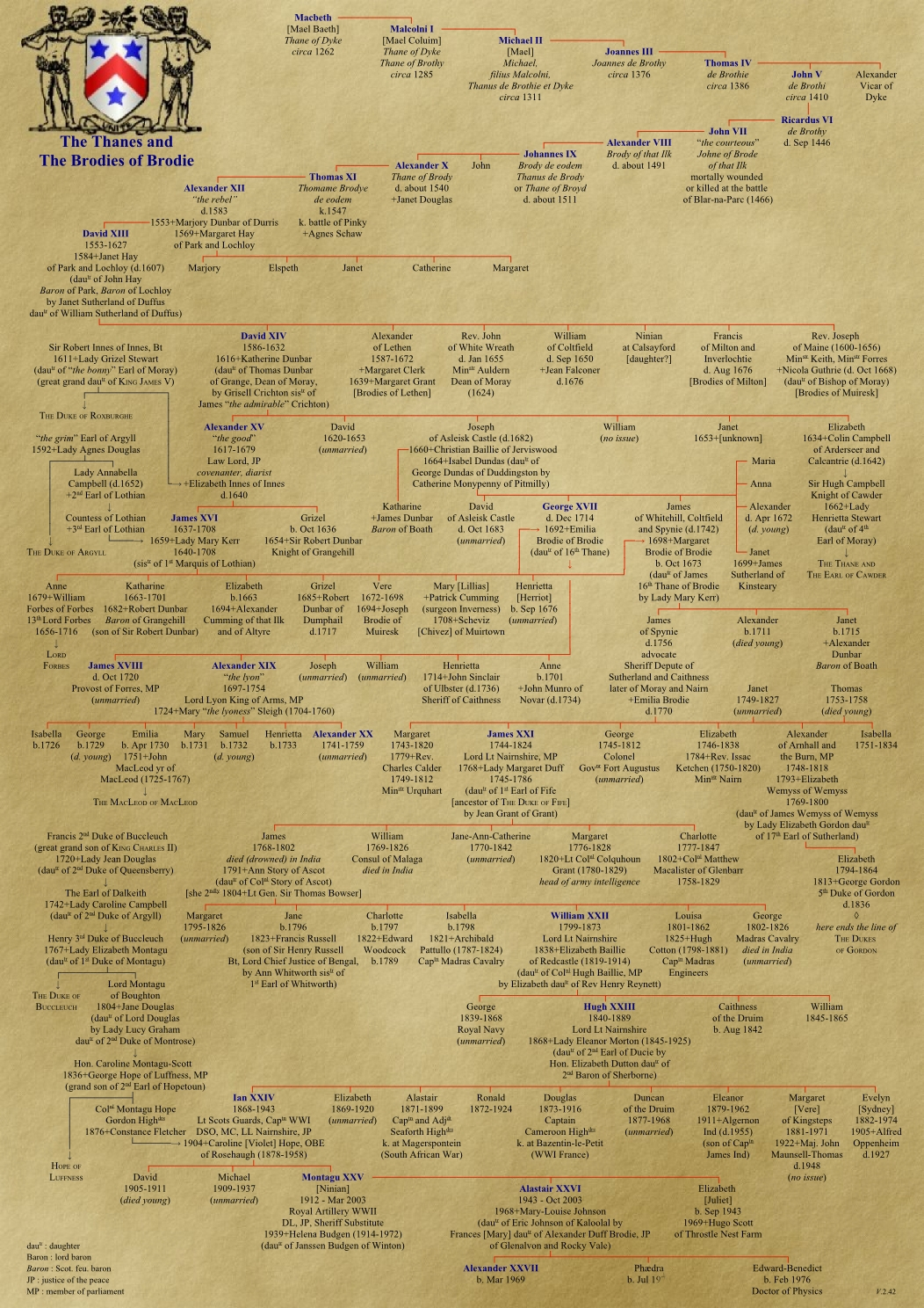 Chiefs of Clan Brodie family tree